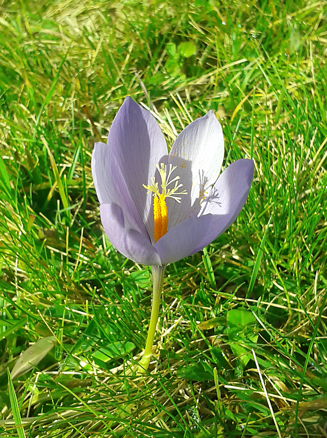 Crocus nudiflorus